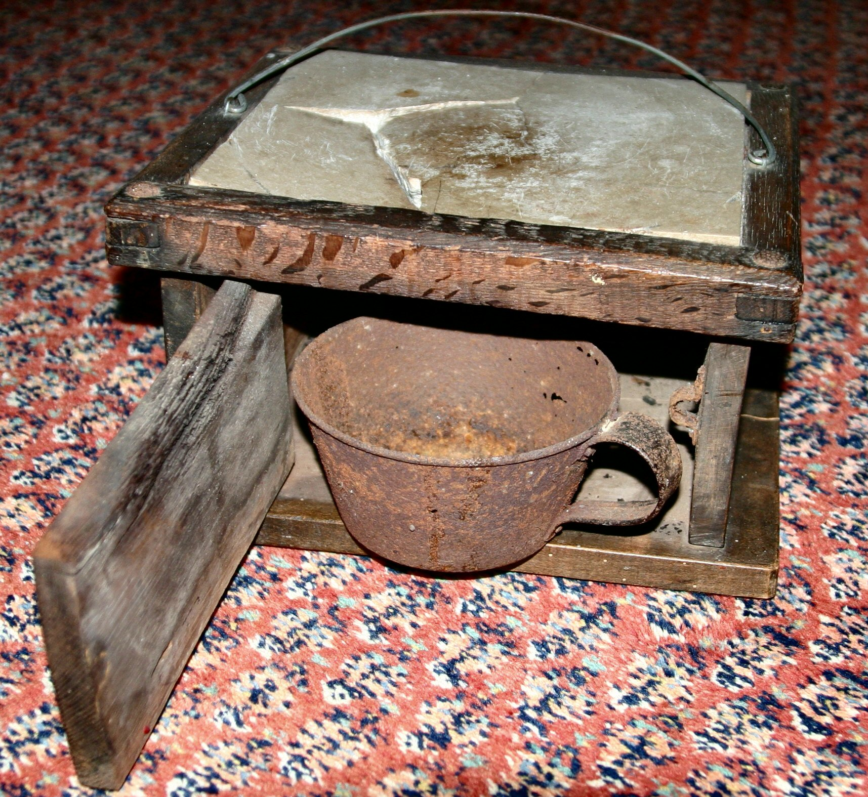 Footstove (Stoof)